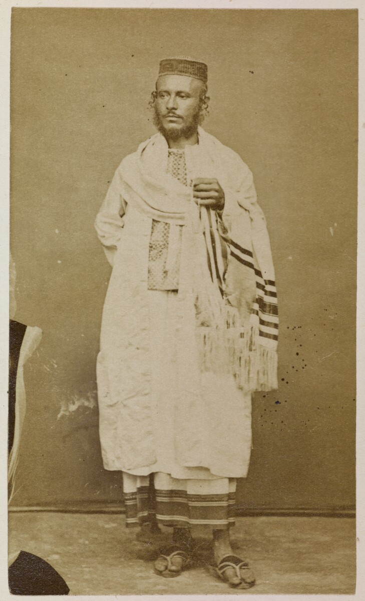 Albumen print, full-length standing studio portrait of a Jewish man in Aden. Photographer unknown, mid 1870s